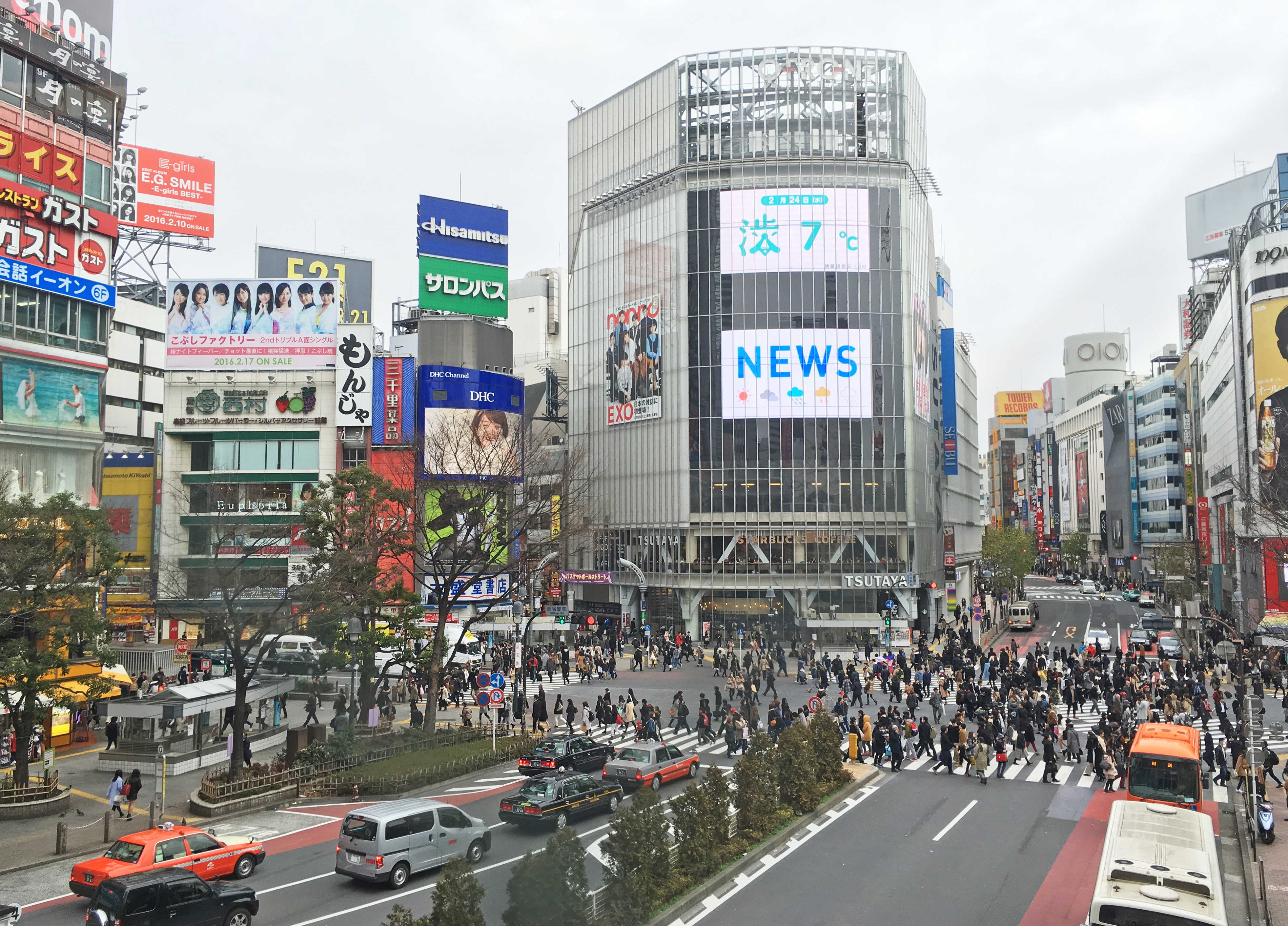 Shibuya crossing